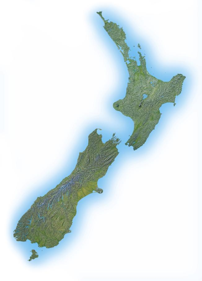 Topographic map of New Zealand